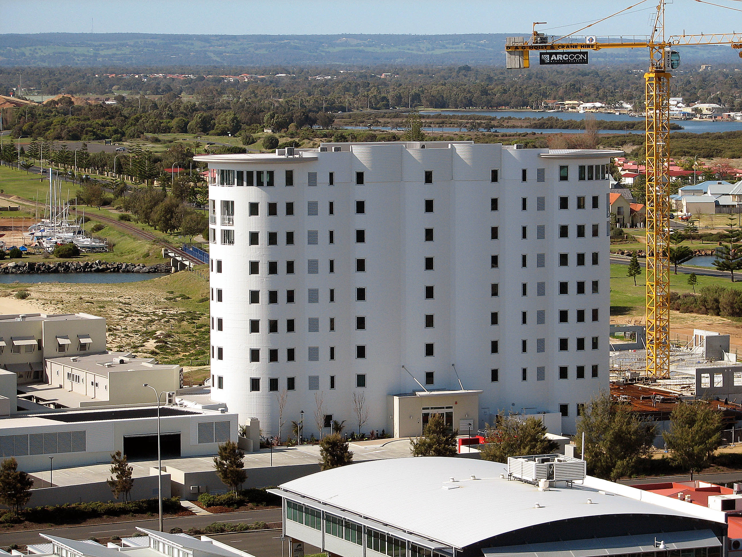 Bunbury, Western Australia, wheat silos converted to residential apartments